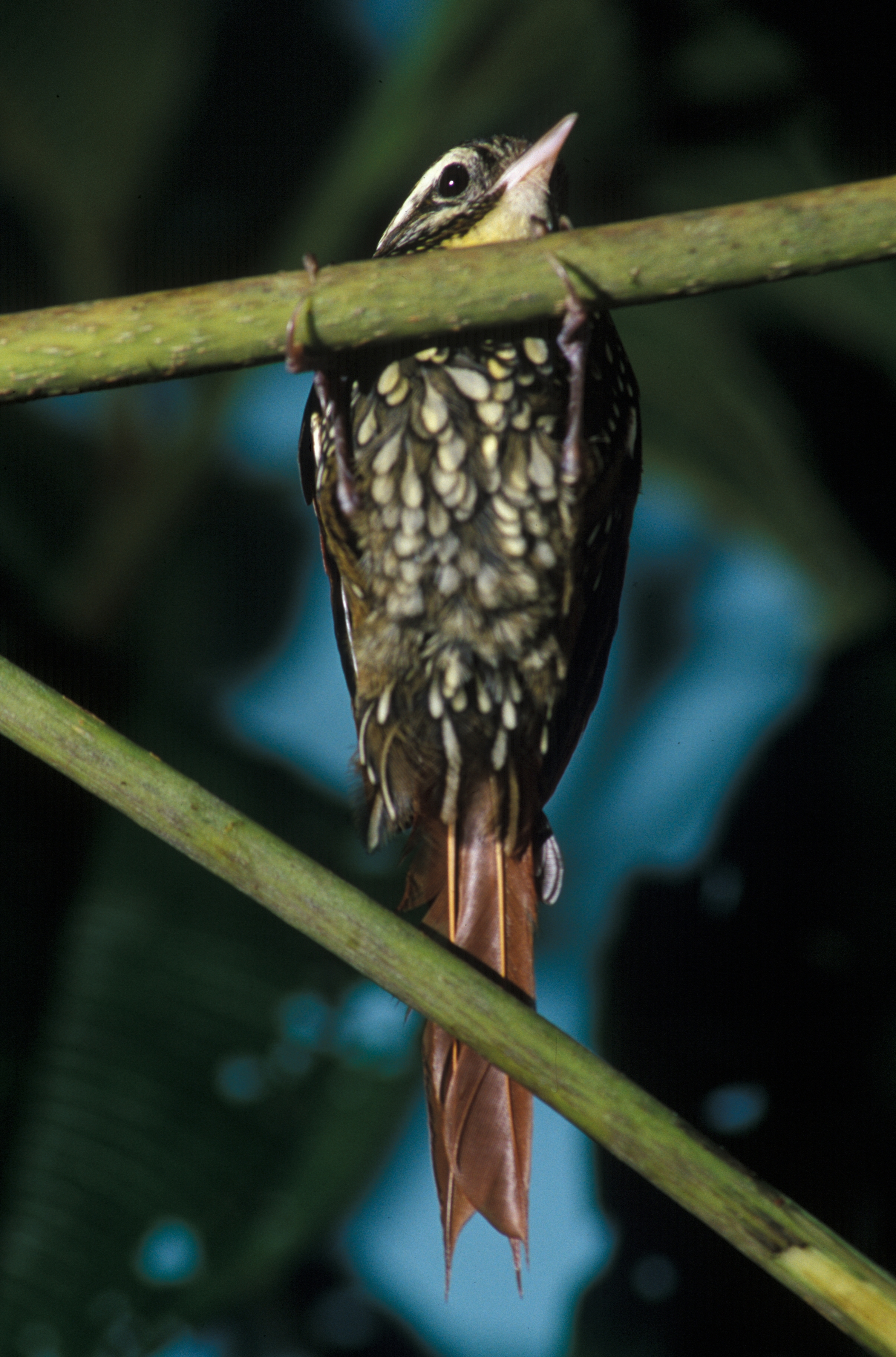 Pearled Treerunner (Margarornis squamiger) from the NBII Image Gallery. Photo taken at Cordillera del Cóndor, Equador.